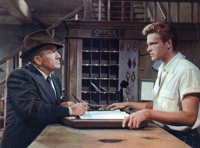 Spencer Tracy & John Ericson taken for film Bad Day at Black Rock (1955). See also film still. No copyright notice.